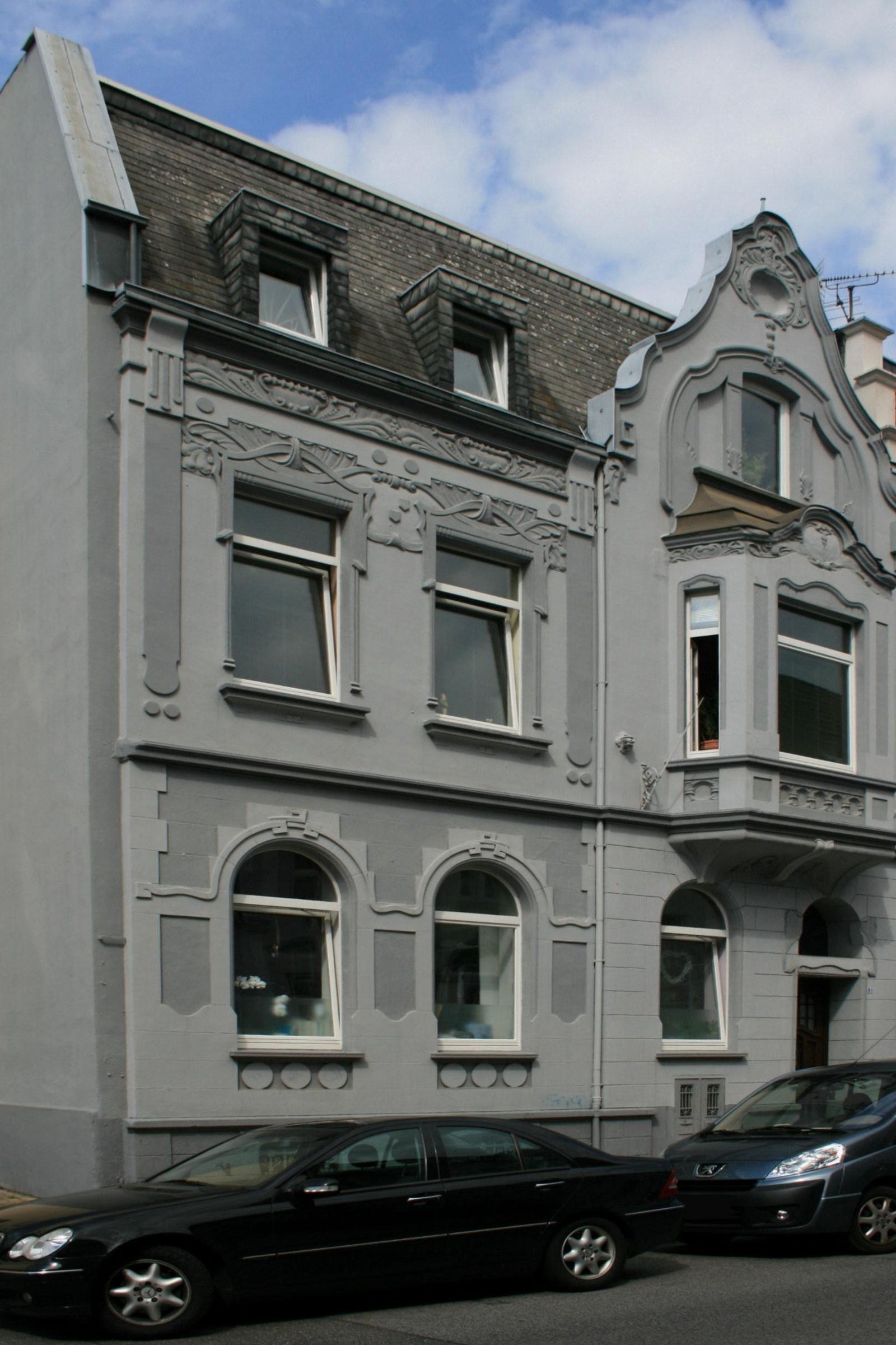 Cultural heritage monument No. L 004 in Mönchengladbach